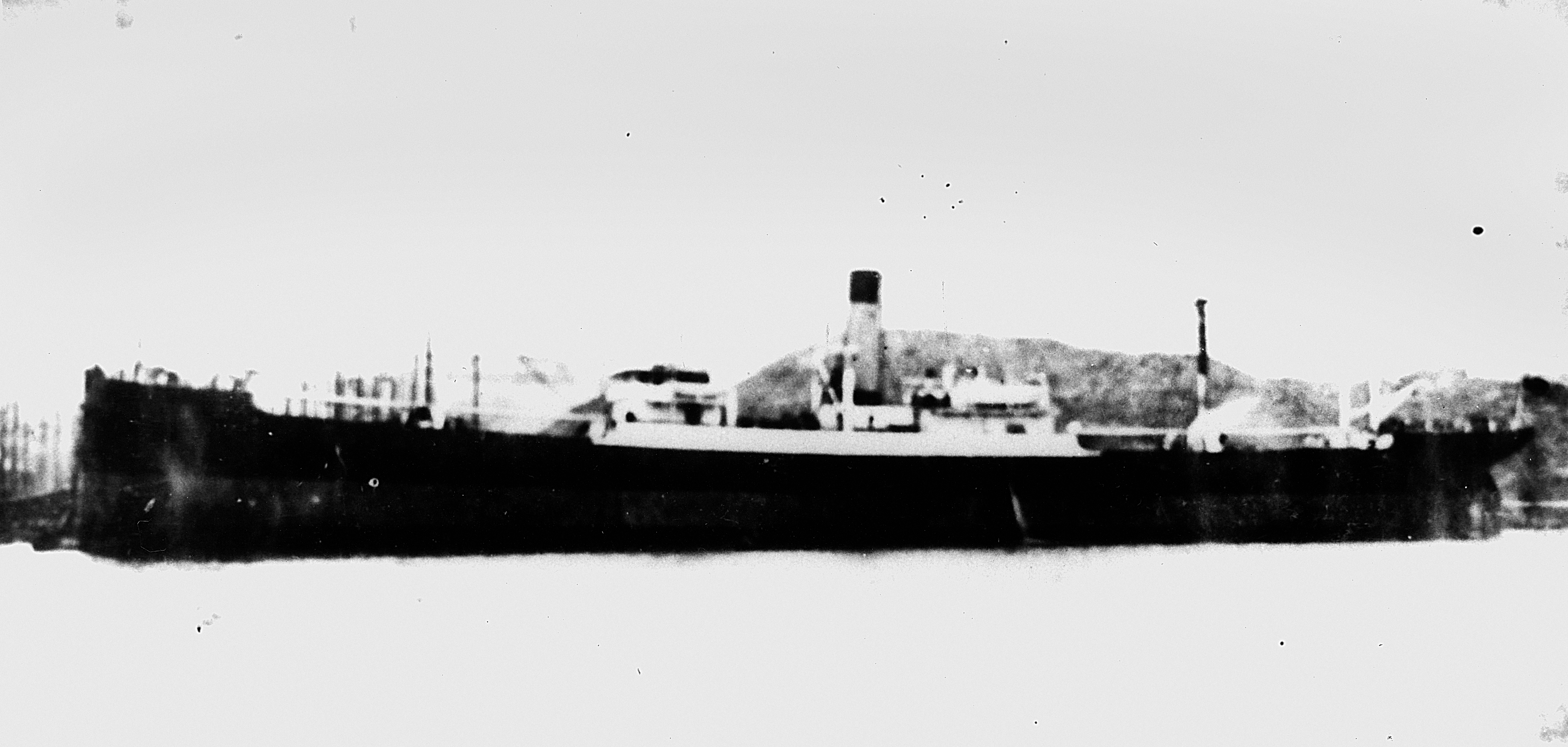 5,181 GRT cargo steamship Hannington Court, built in 1912 by J Priestman & Co of Sunderland for the United British Steam Ship Company